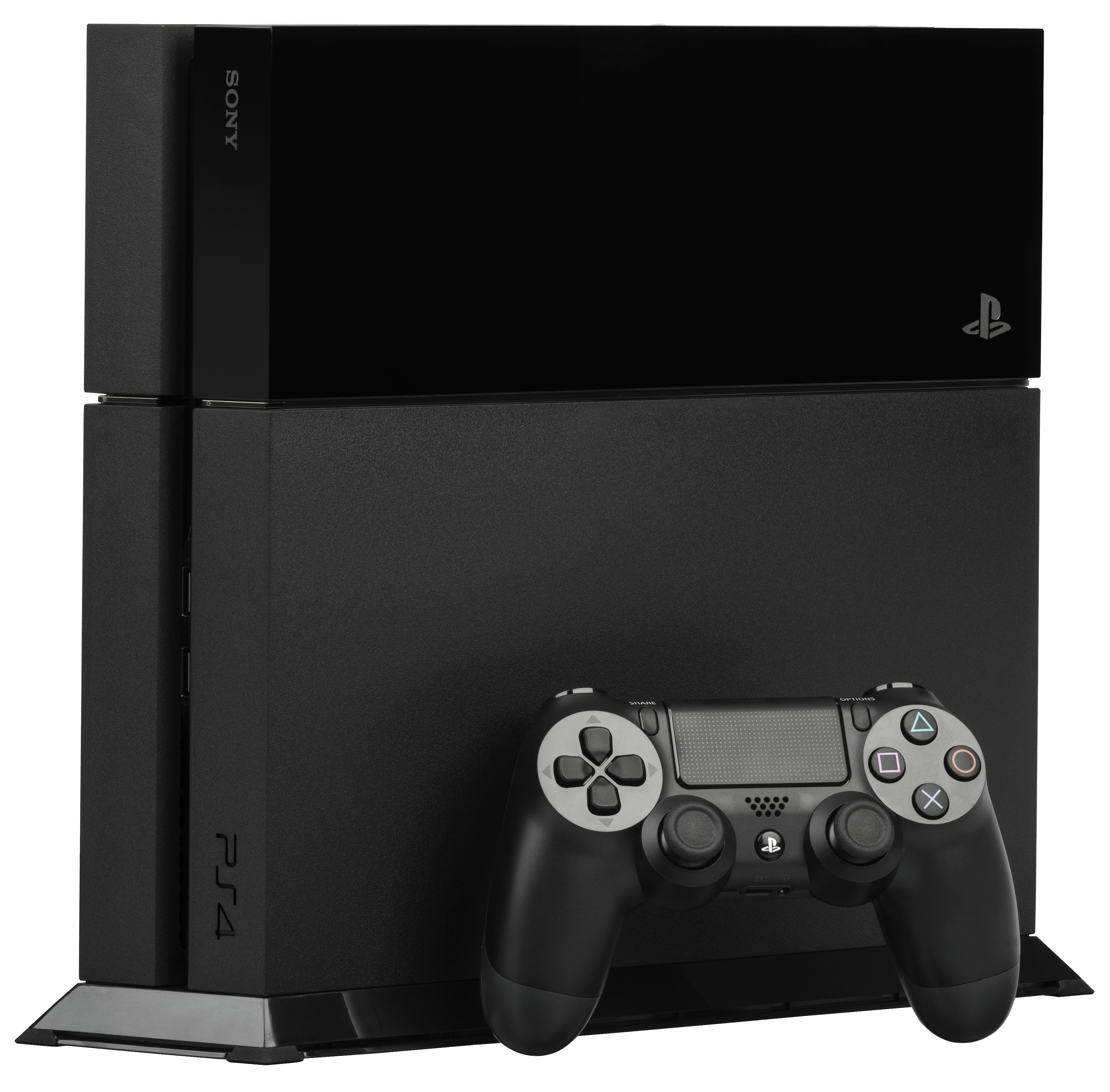 The Sony PlayStation 4 (PS4), an eighth generation video game console released in 2013. The PS4 is shown here with the DualShock 4 controller and an optional vertical stand.